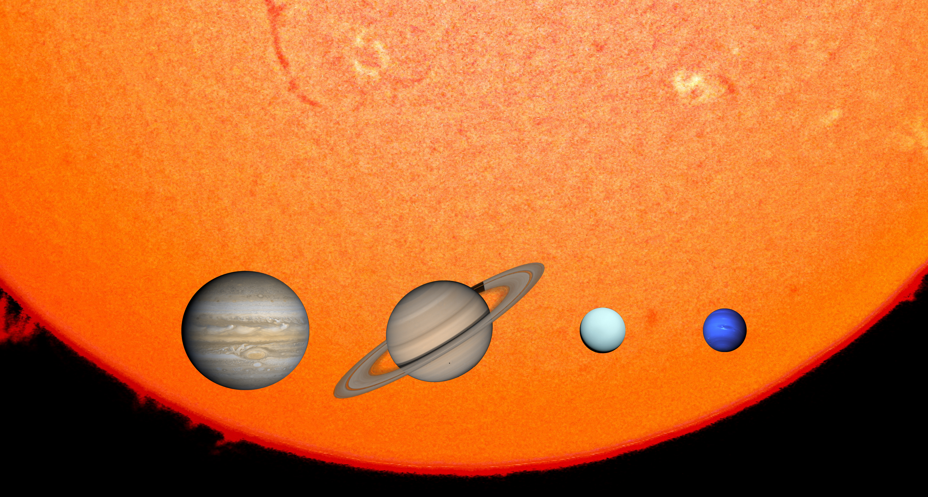 The gas giants against the Sun's limb, at 1 px = 1 Mm The diameters are to scale. The limb of the Sun is in the background. From left to right, Jupiter, Saturn, Uranus and Neptune.